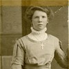 Portrait of the Danish archivist Emilie Andersen (1895-1970)